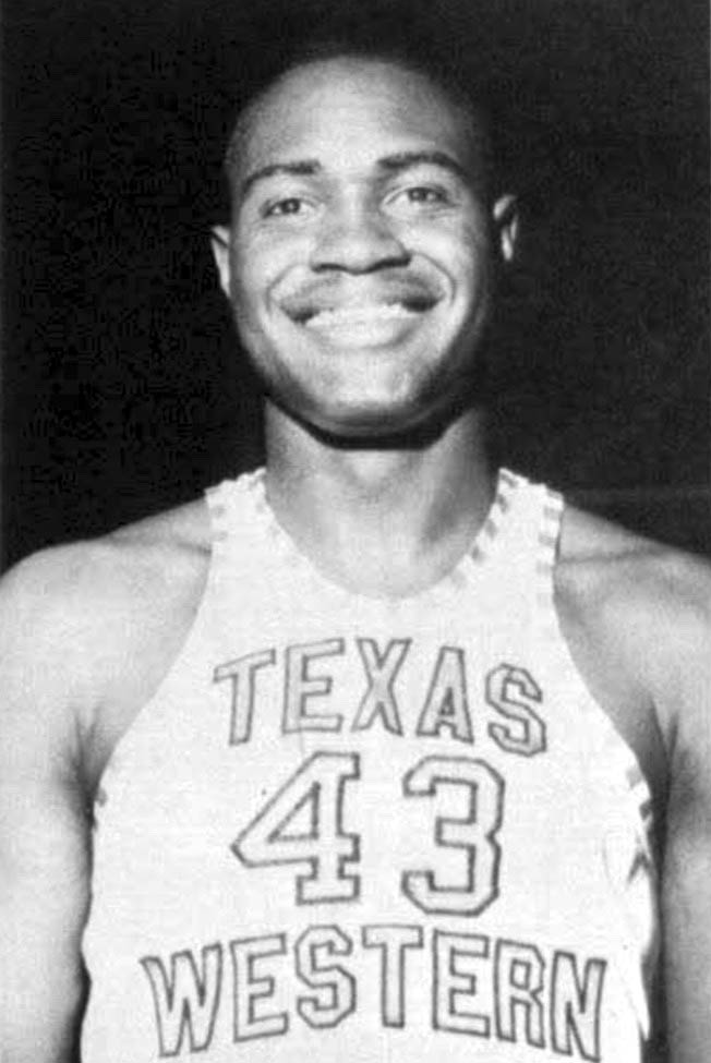 American basketball player David Lattin Of the UTEP Miners from the 1966 UTEP student yearbook.